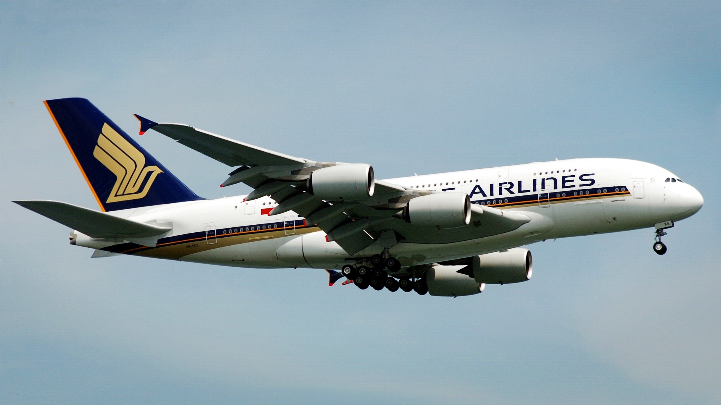 Singapore Airlines (SIA/SQ) Airbus A380 (9V-SKA) landing on 20C at Singapore Changi Airport. Taken with a Nikon D80 and AF 70-300 f/4-5.6G lens.